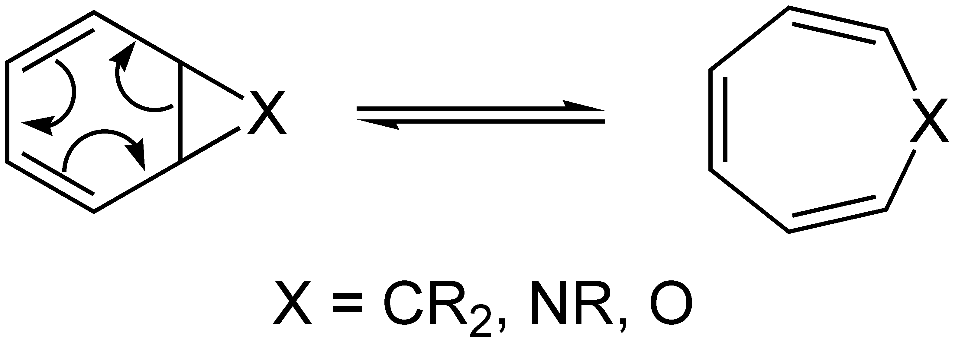 Cycloheptatriene-Norcaradiene Rearrangement Mechanism Chemical Structure